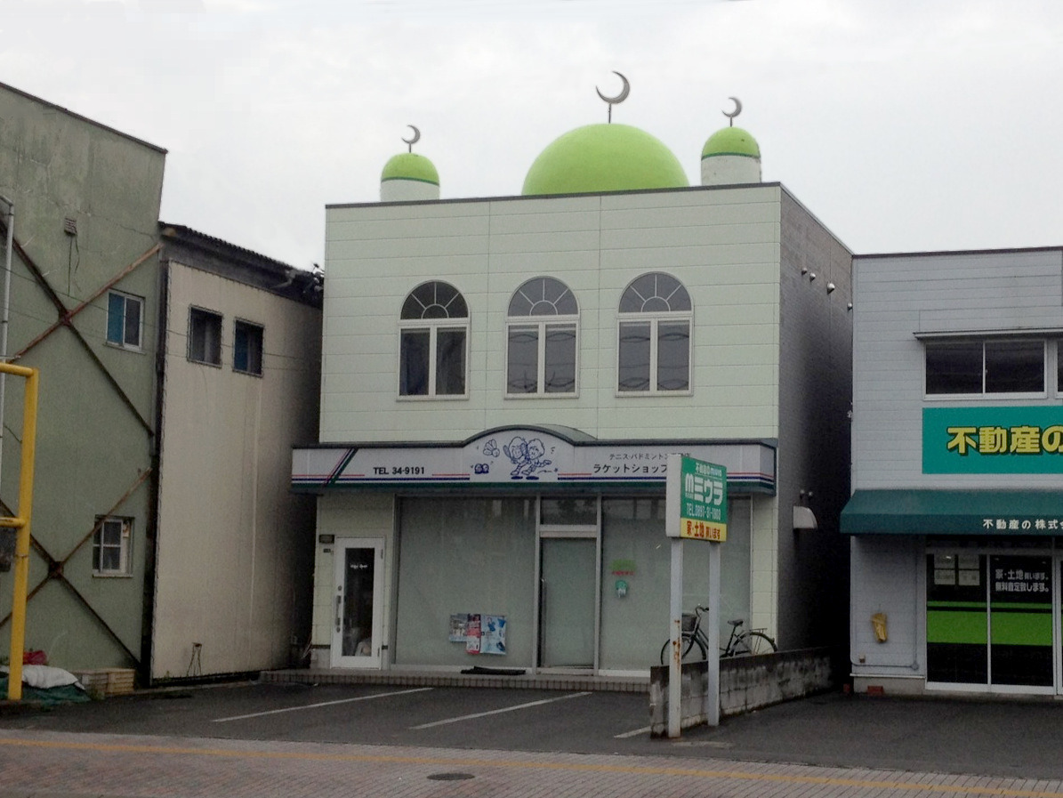 Niihama Masjid in Niihama, Ehime pref., Japan.